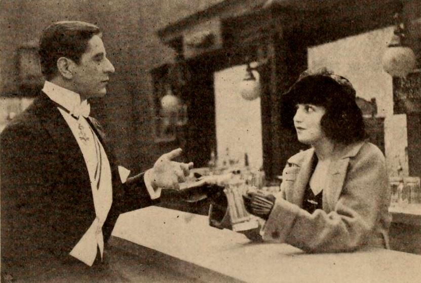 Bebe Daniels serving a drink for Robert Warwick, on page 139 of the December 27, 1919 Exhibitors Herald. The film is not identified (although both actors were in the forthcoming film The Fourteenth Man, released in September 1920) although the caption indicates that it is a Famous Players studio set. The caption also notes that "this (drinking) is only done in the movies now," referring to the enactment of Prohibition in the United States.